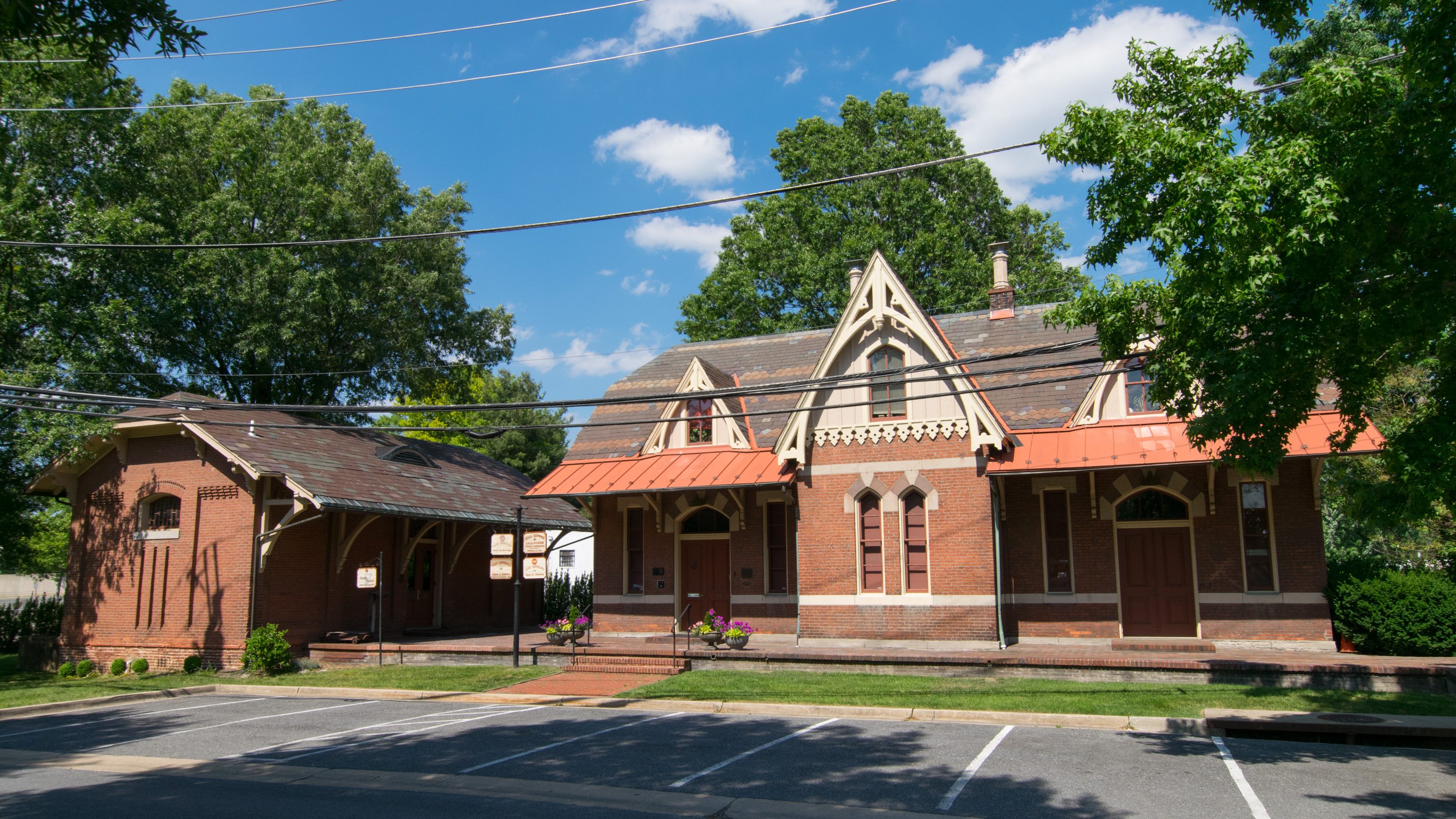 Rockville Railroad Station, constructed in 1873.